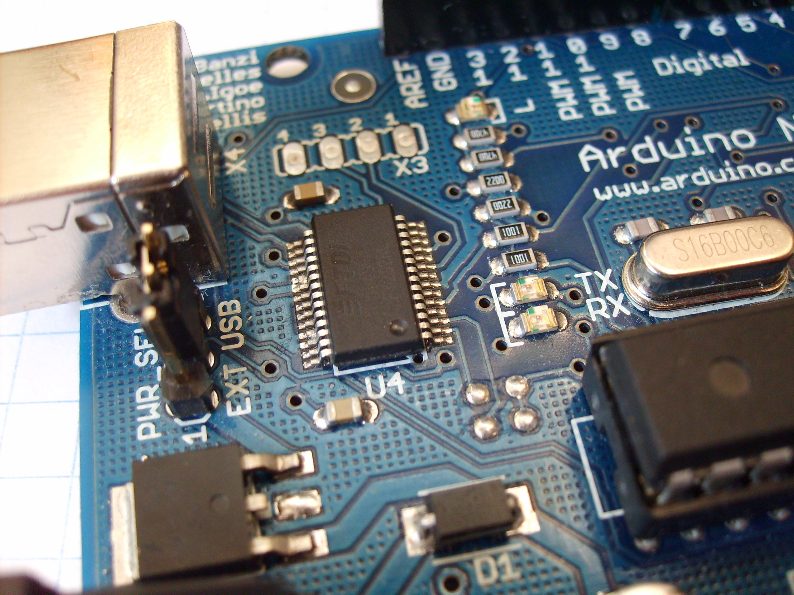 A part of the Arduino NG board from arduino.cc, with a FTDI chip, some SMD (surface-mount device) resistors, LEDs, capacitors,...